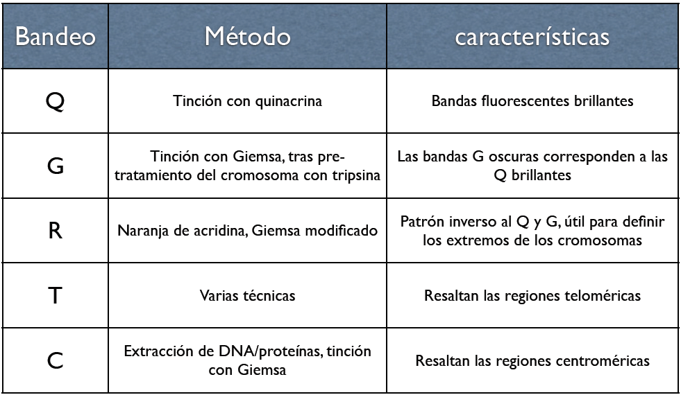 tipos de bandeo